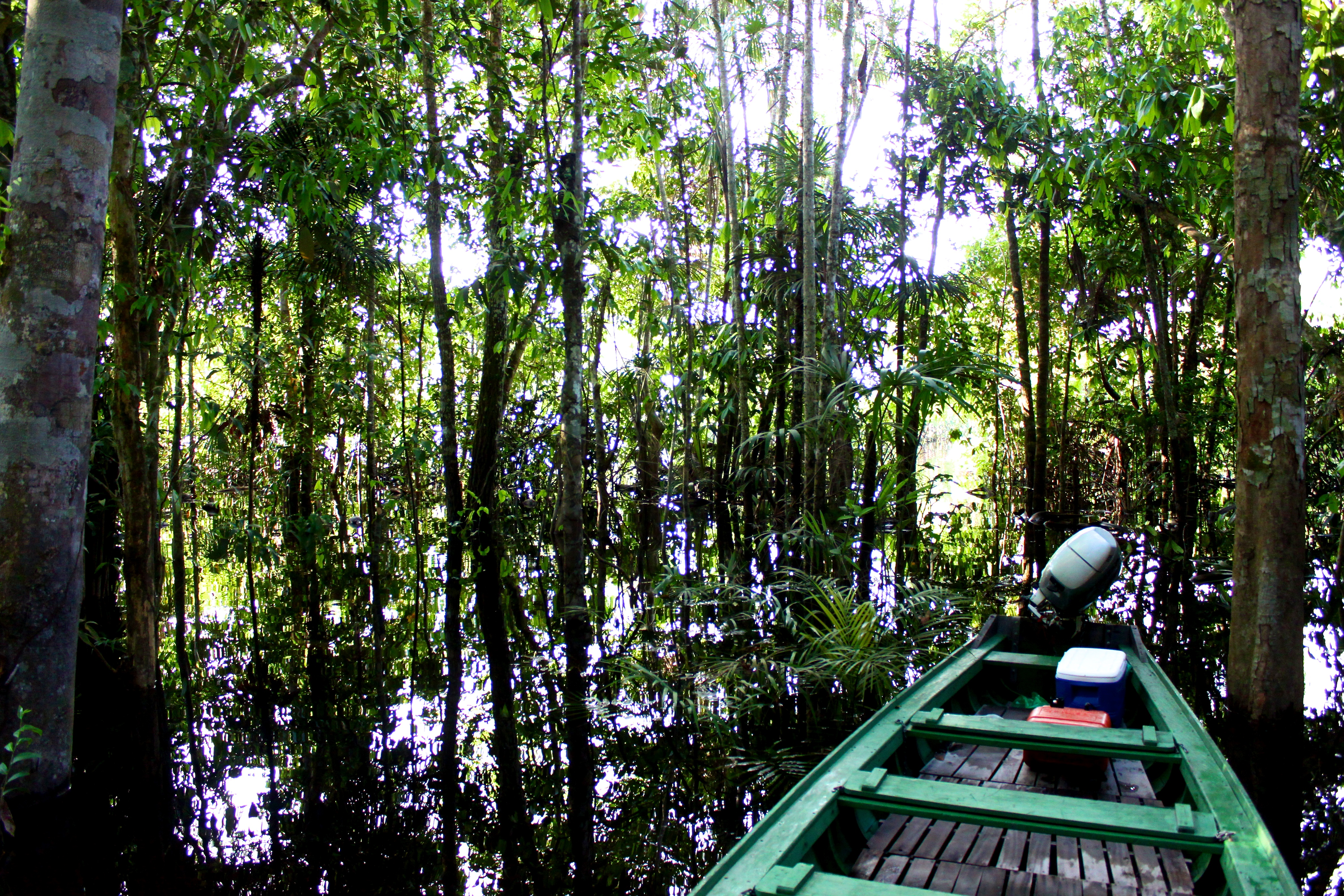 Reflections of the trees in the river. Parque Nacional do Jaú (Jaú National Park), Amazonas, Brazil